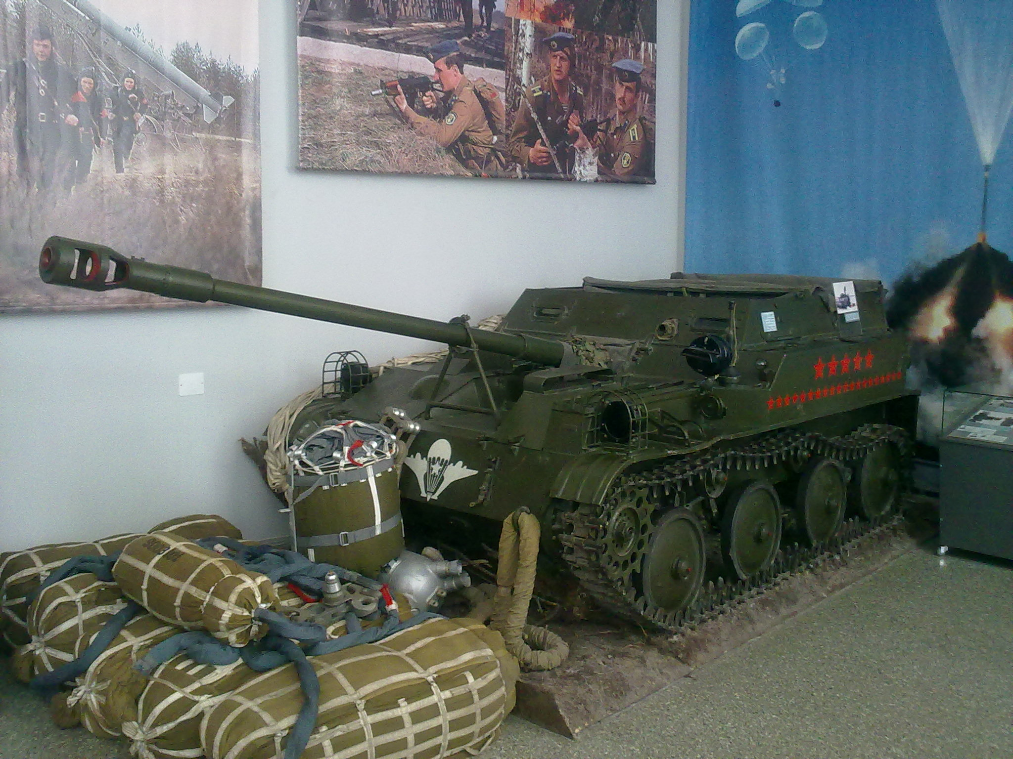 ASU-57